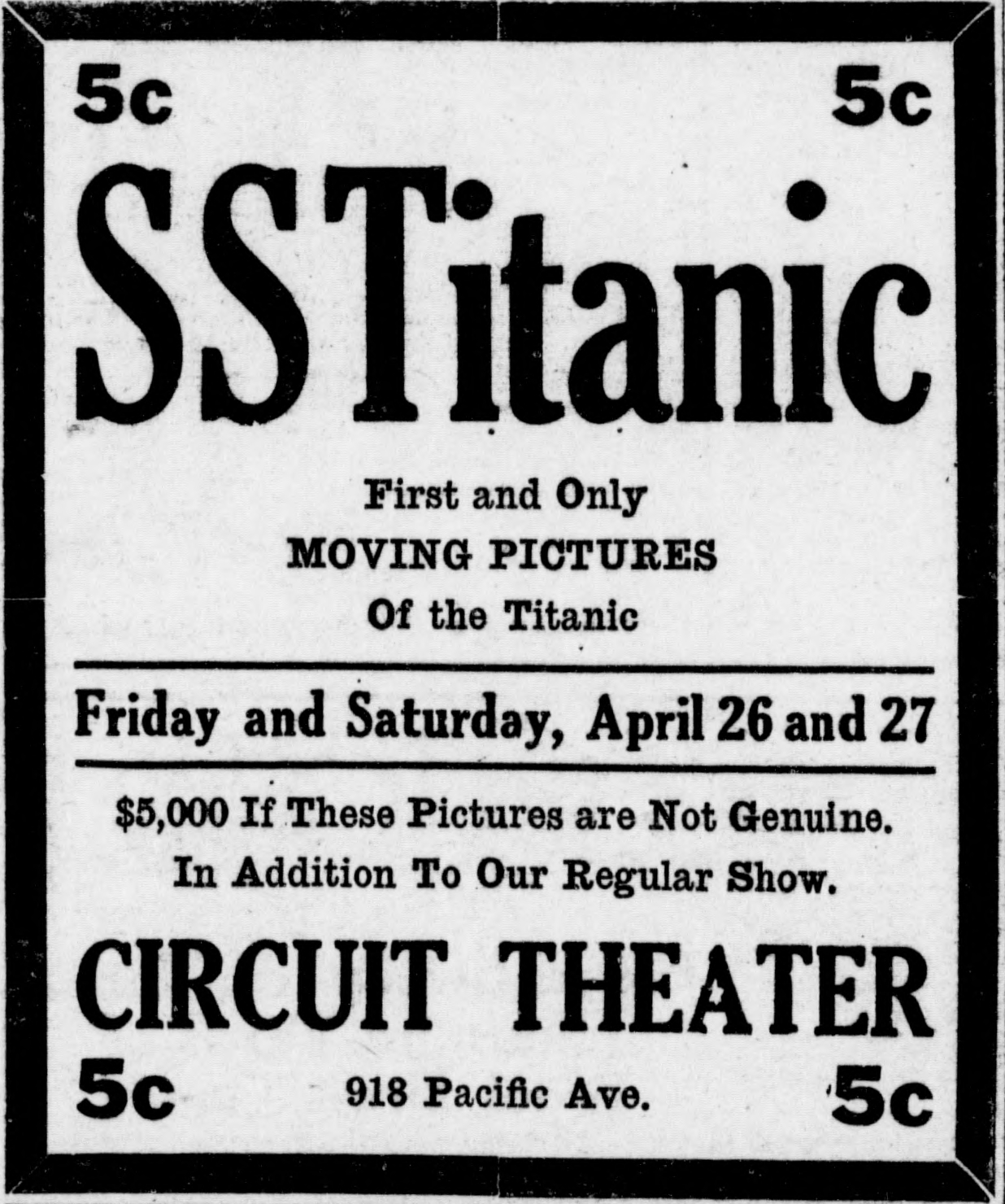 Advertisement for a newsreel on the Titanic disaster